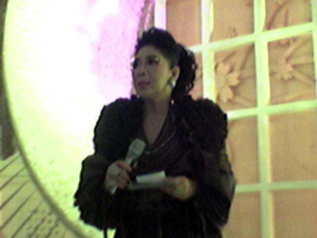 Depicted person: Titiek Puspa depicted place: Hotel Grage, Cirebon